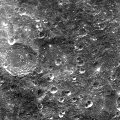 Brouwer crater